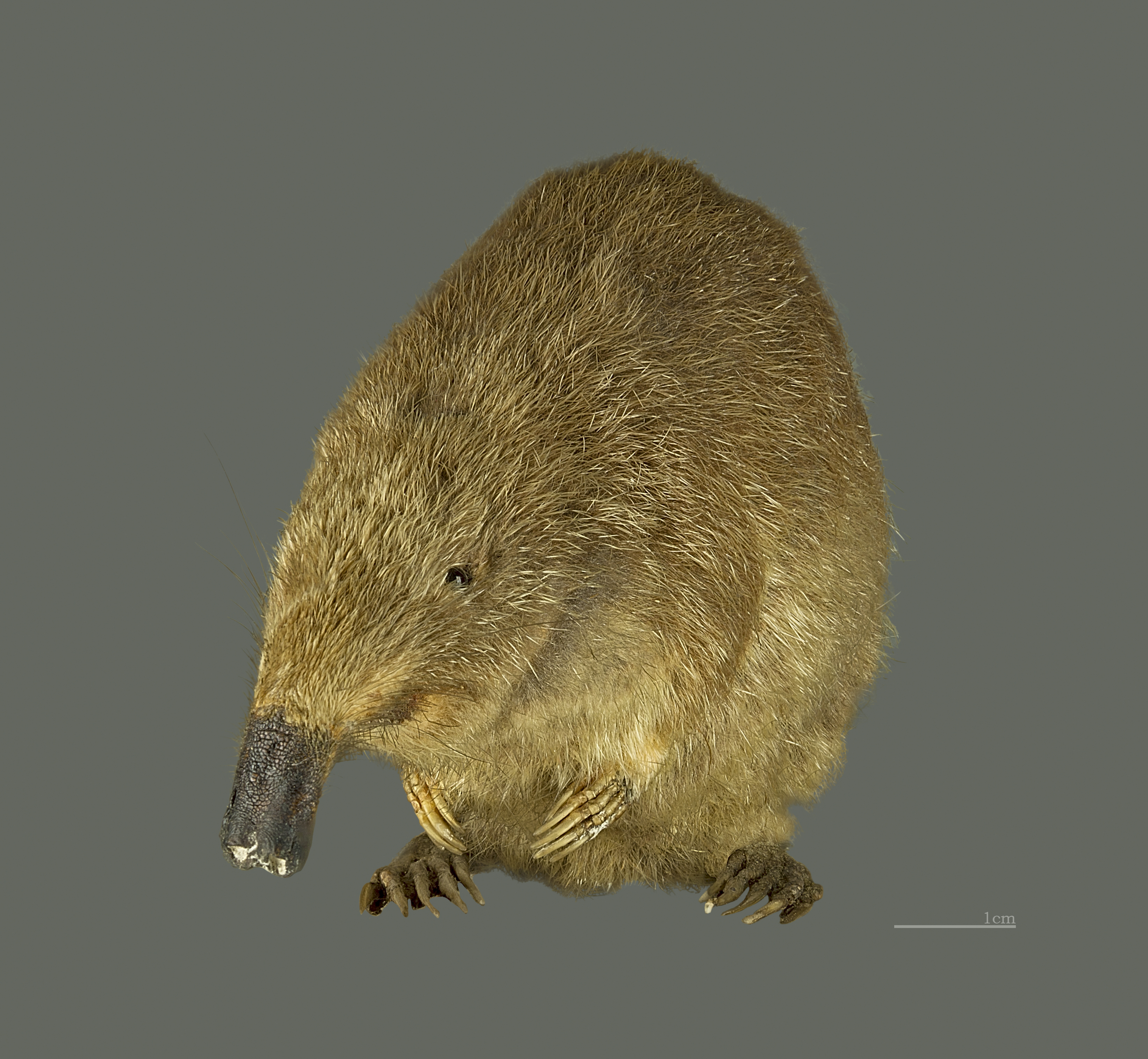 Pyrenean desman.